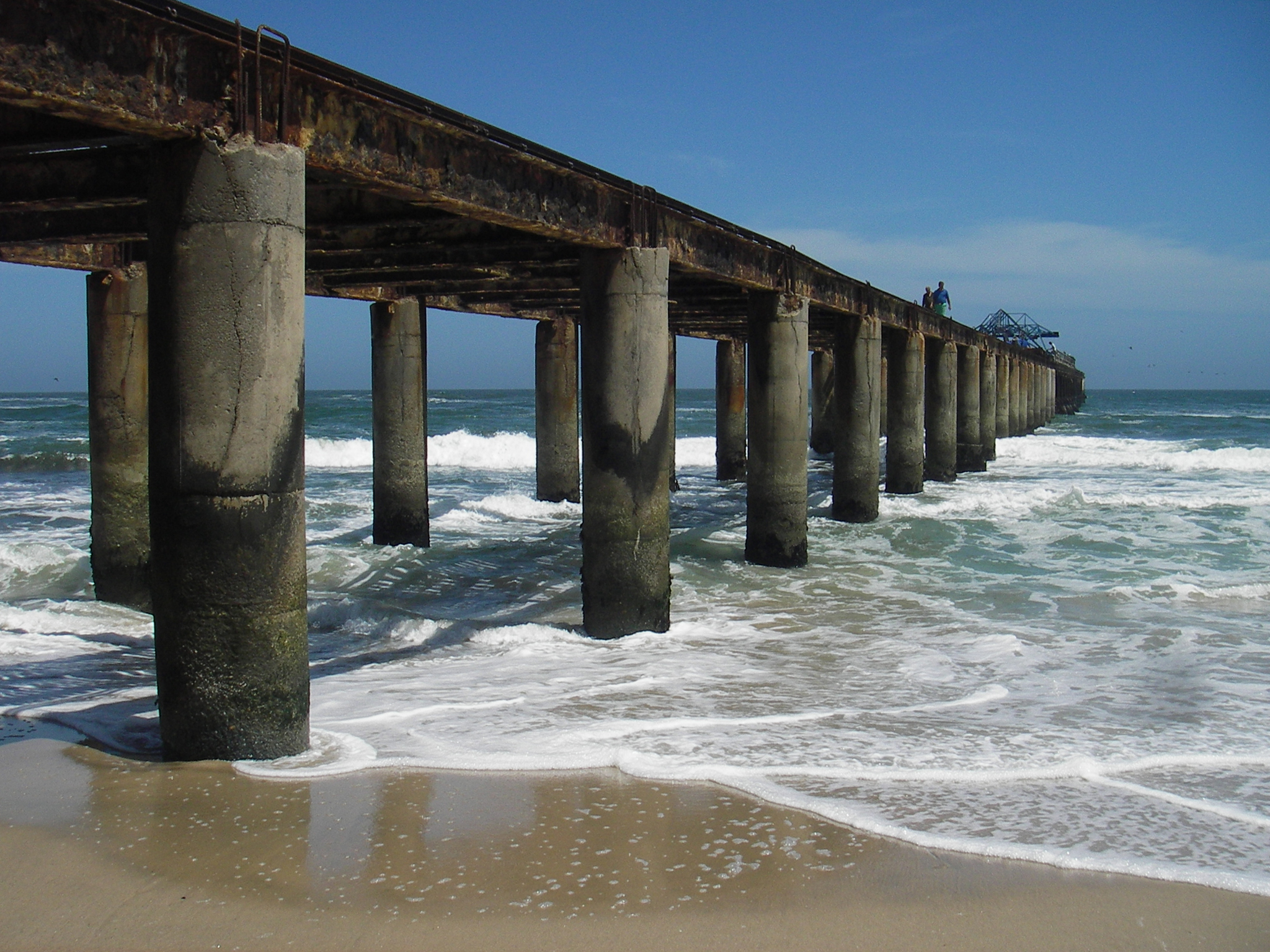 Jetty in Swakopmund, looking out onto the South Atlantic